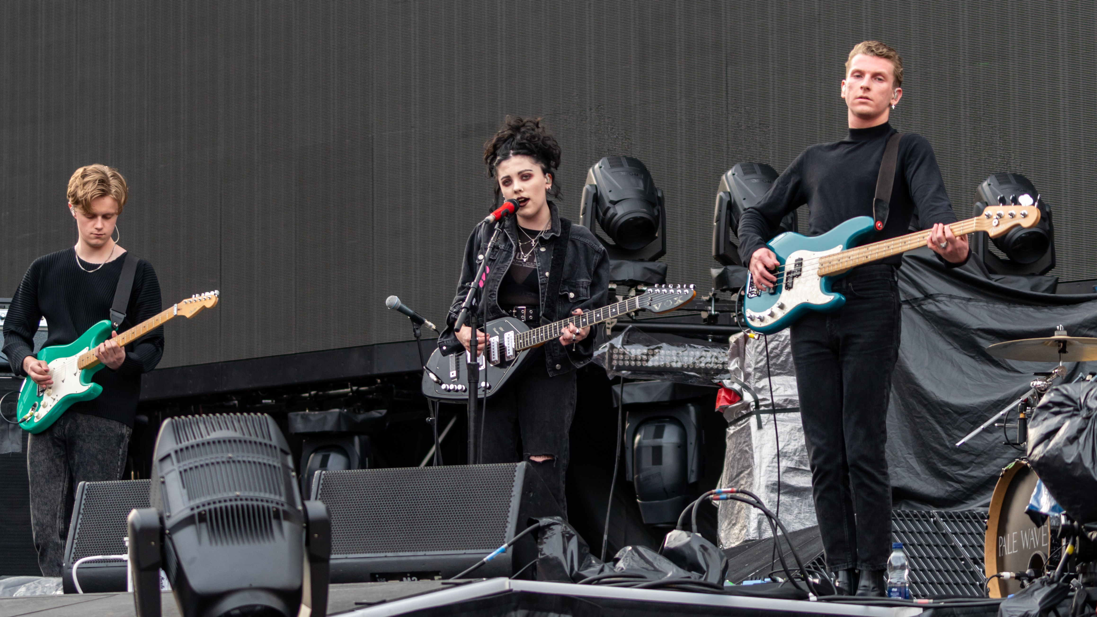 Pale Waves play as supporting act for Muse in Bristol, UK.